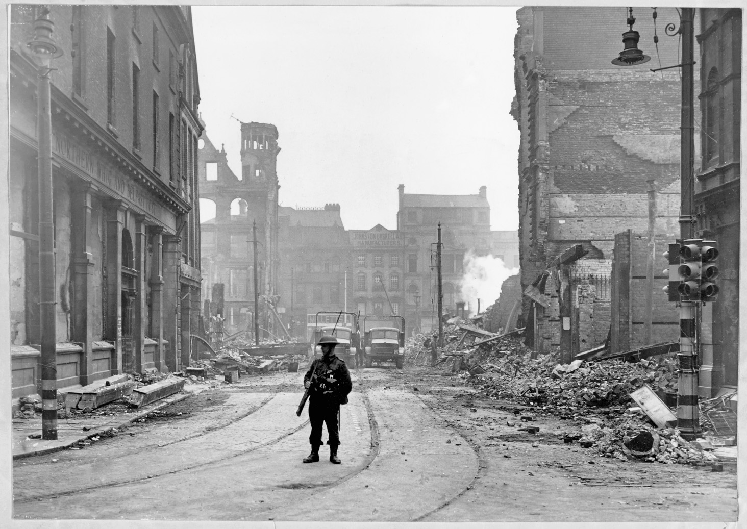 Photographs from a report compiled by the Ministry of Public Security on the air raids on Belfast and their aftermath. Creator: Ministry of Public Security, records of the Cabinet Secretariat Date: 1941 Original Format: Photographic print Description: Bridge Street, City Centre, Belfast Blitz - May 8th 1941. PRONI Ref: CAB/3/A/68/A For Copy Orders, contact: For fees and charges